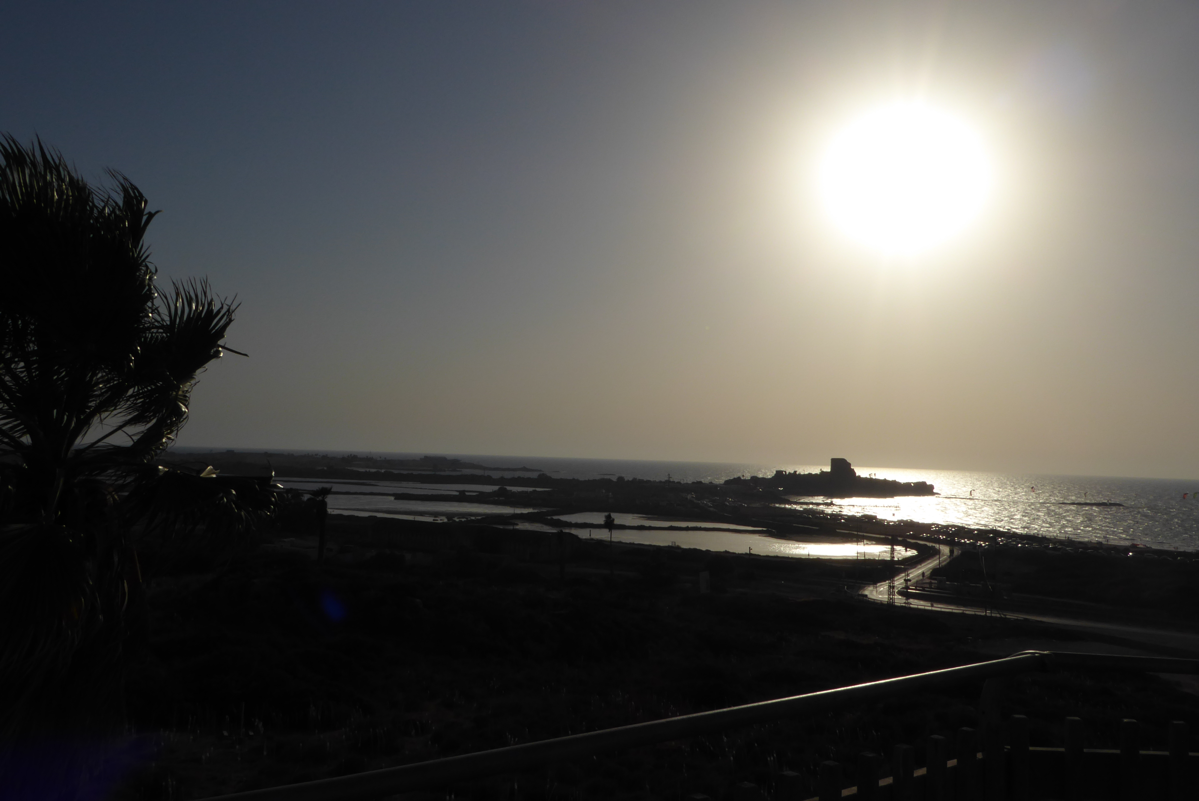 Chateau Pelerin